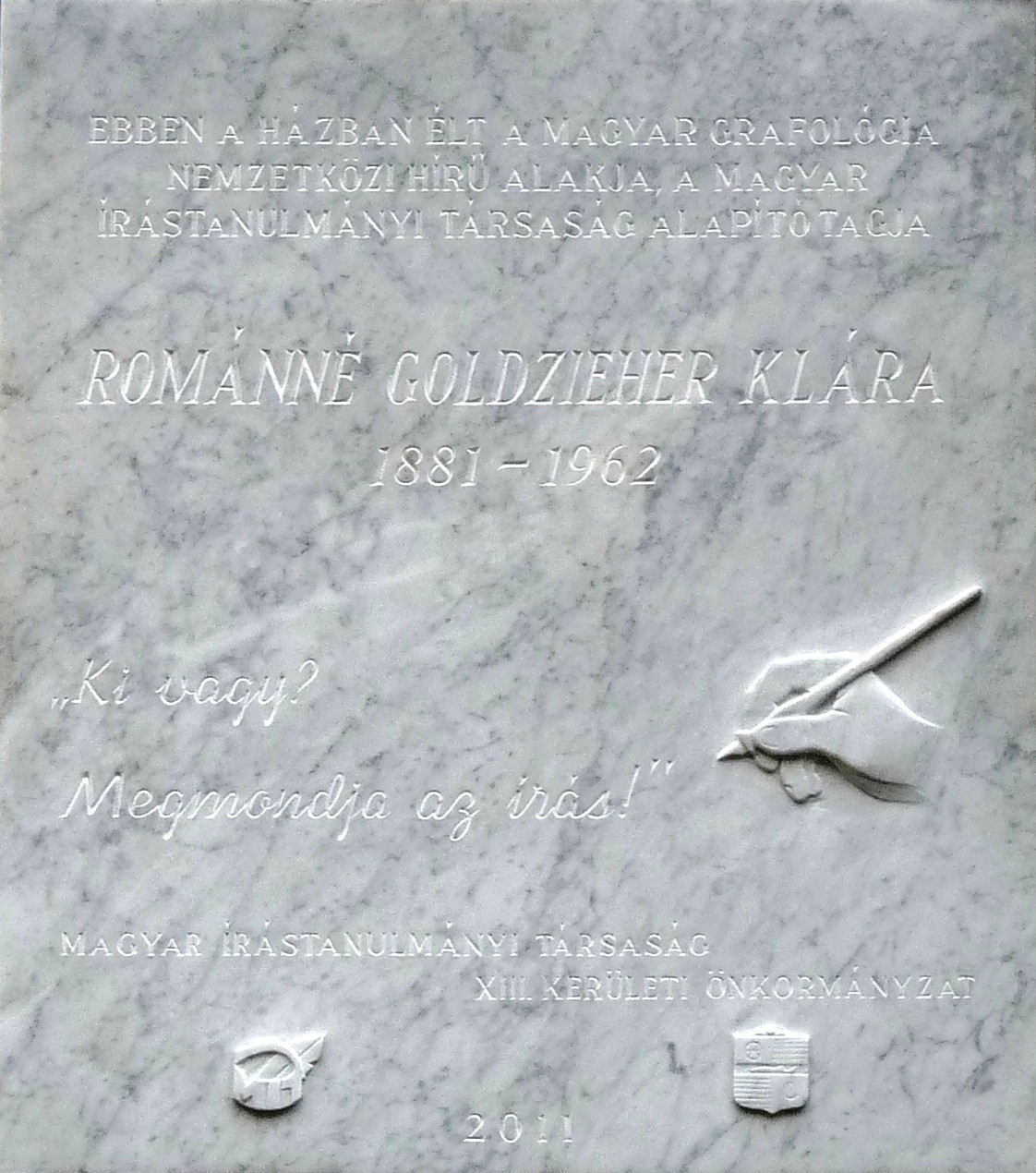 Commemorative plaque to Mrs. Klara G. Roman (in hungarian: Románné Goldzieher Klára) (1881, Budapest –1962, New York), Hungarian graphologist, one of the creators of the Hungarian graphology, when she taught at the New School for Social Research in New York. The plate is affixed at the entrance of her former home in Budapest. It was unveiled on September 19, 2011. Quote: “Who are you? The writing will tell!” (Budapest, District XIII, Hegedűs Gyula Street Nr 14).